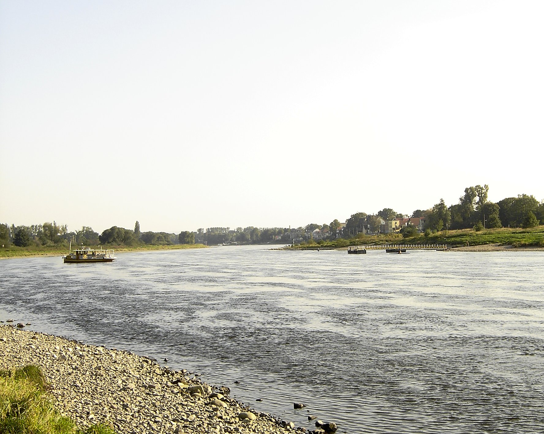 elbe ferry connection between Laubegast and Niederpoyritz in Dresden